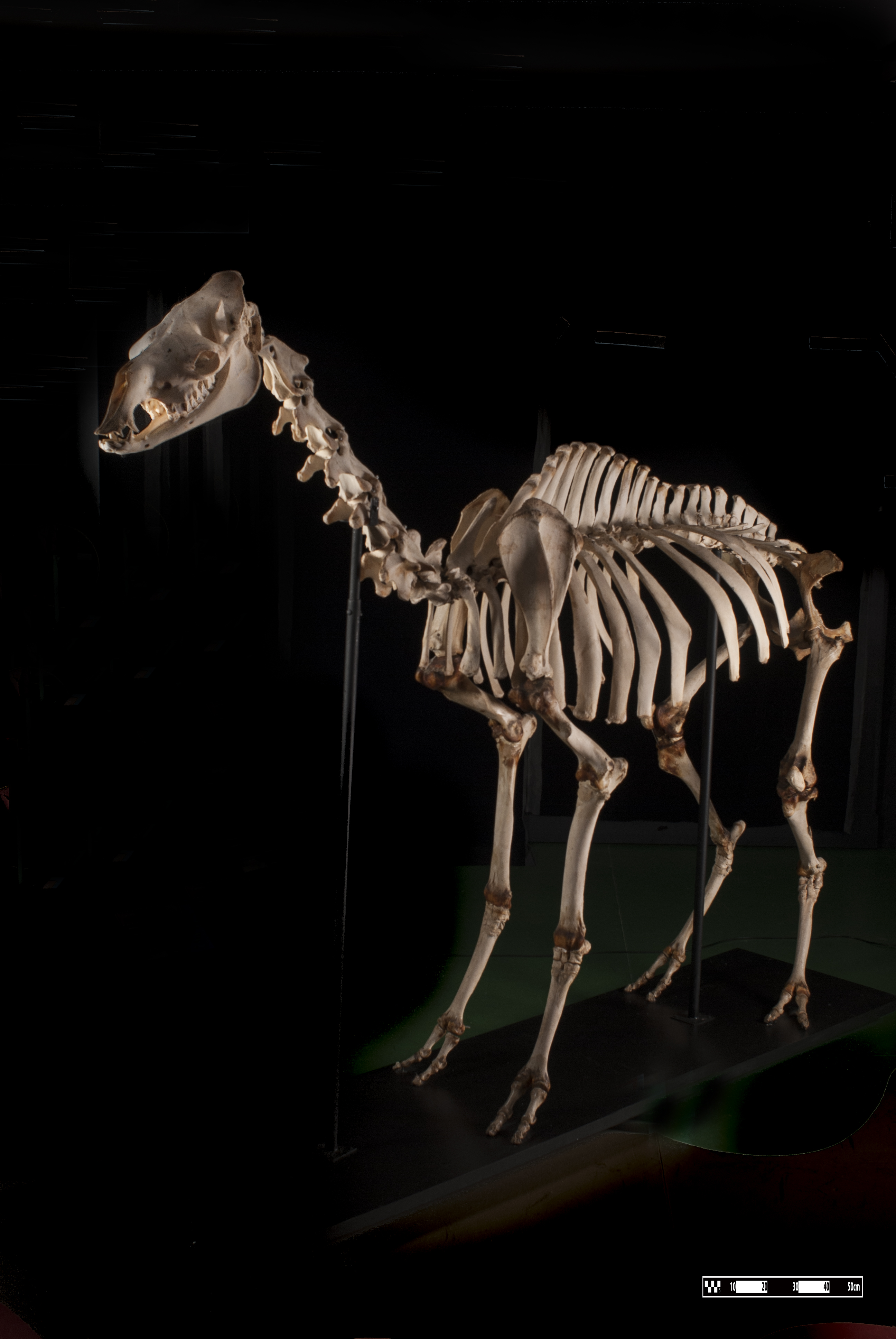 Camel skeleton. Camelus bactrianus”. Specimen of camel skeleton prepared by the bone maceration technique and on display at the Museum of Veterinary Anatomy, FMVZ USP.